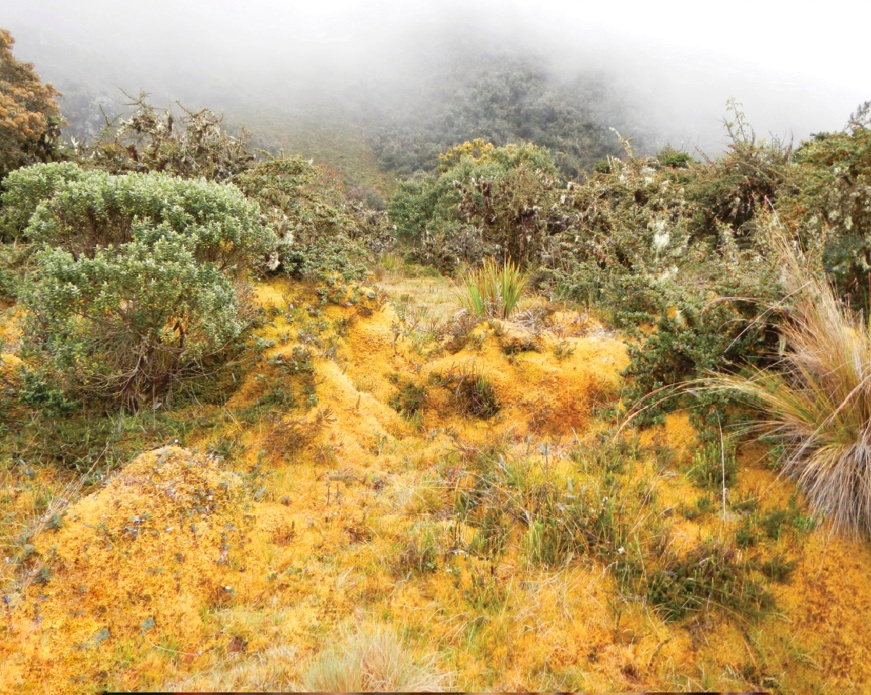 Upper montane forest at 3550 m a.s.l. where P. attenboroughi sp. n. was found in moss pads